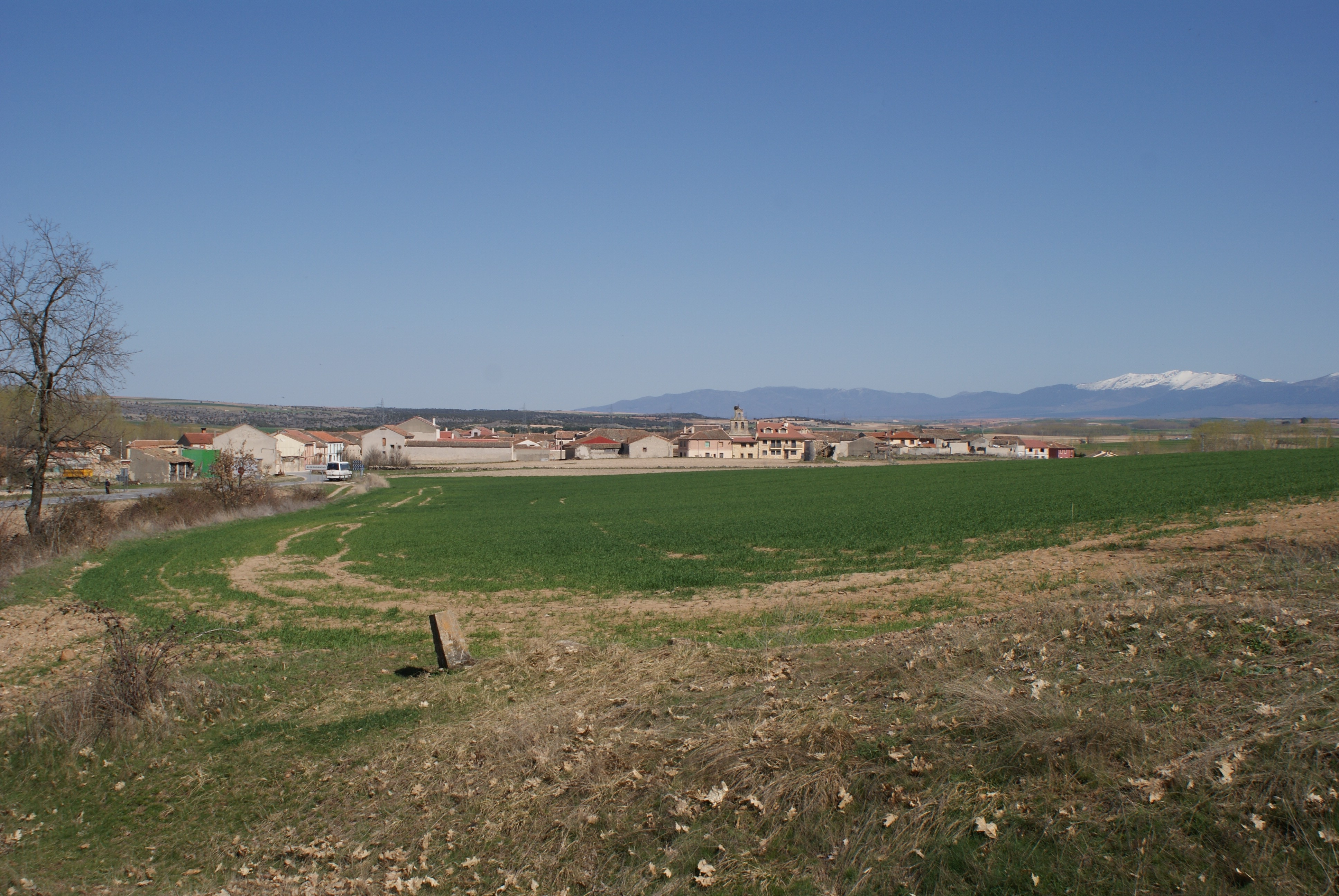 A view of Aldeonsancho village, Segovia, Spain.